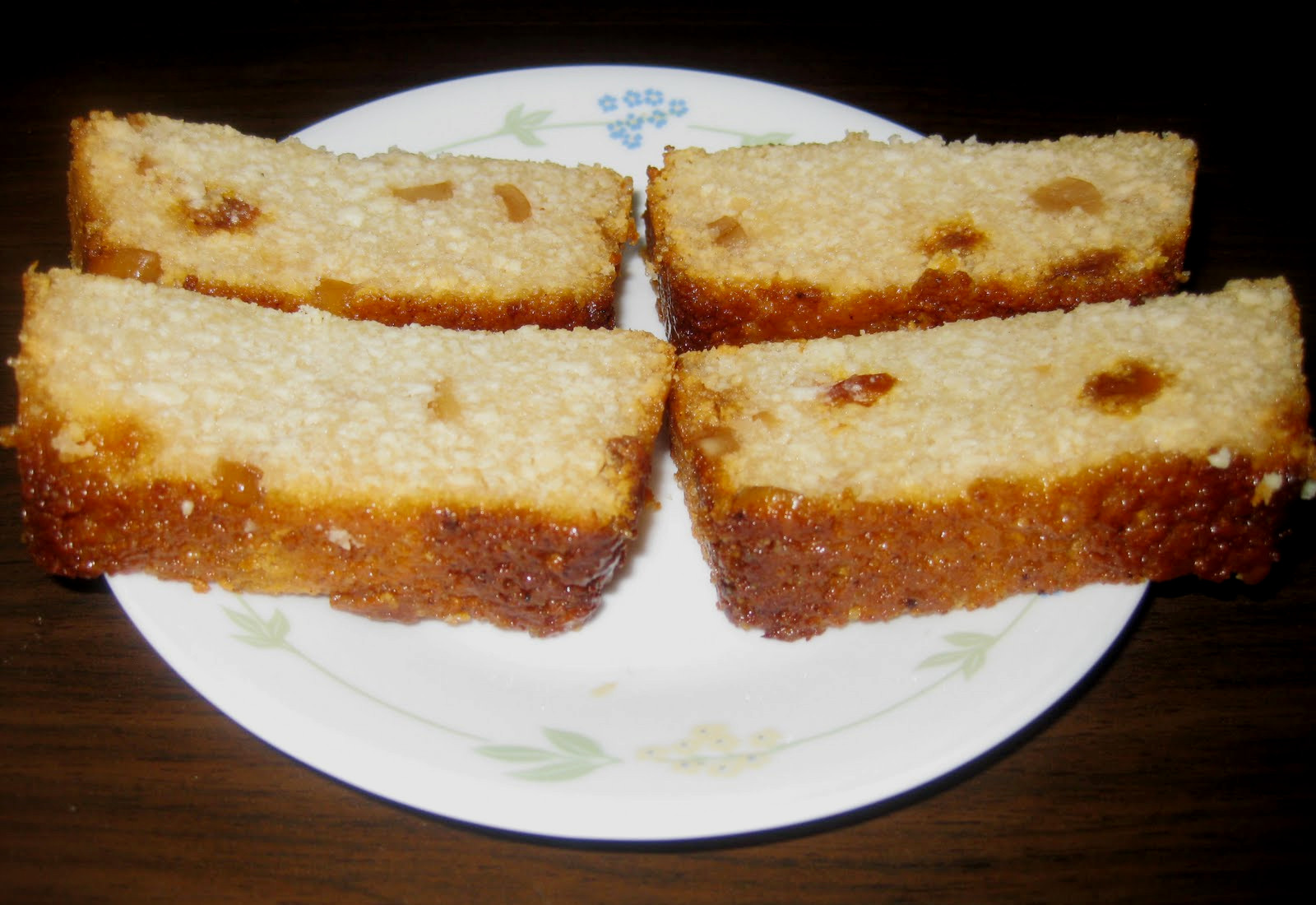 Oriya Sweet dish.